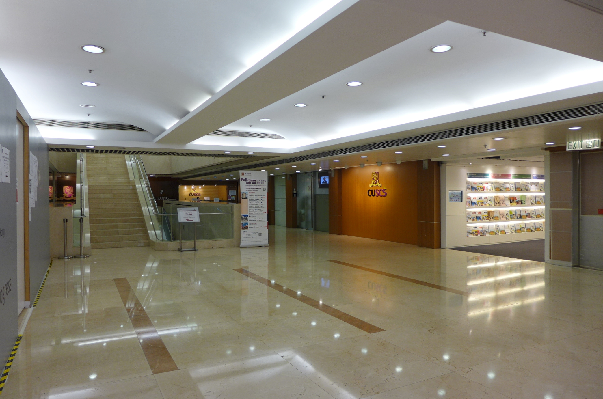 CUSCS in Bank of America Tower